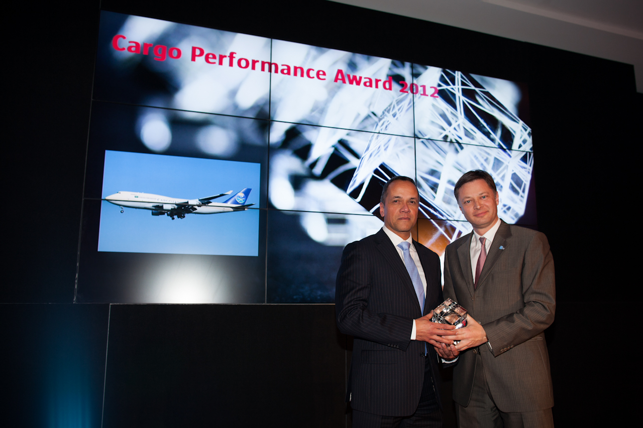 Performance Award Cargo Airline Saudi Airlines Cargo on average operates 13 flights a week to 7 destinations around the globe and has been the largest cargo carrier at Brussels Airport for several years now.